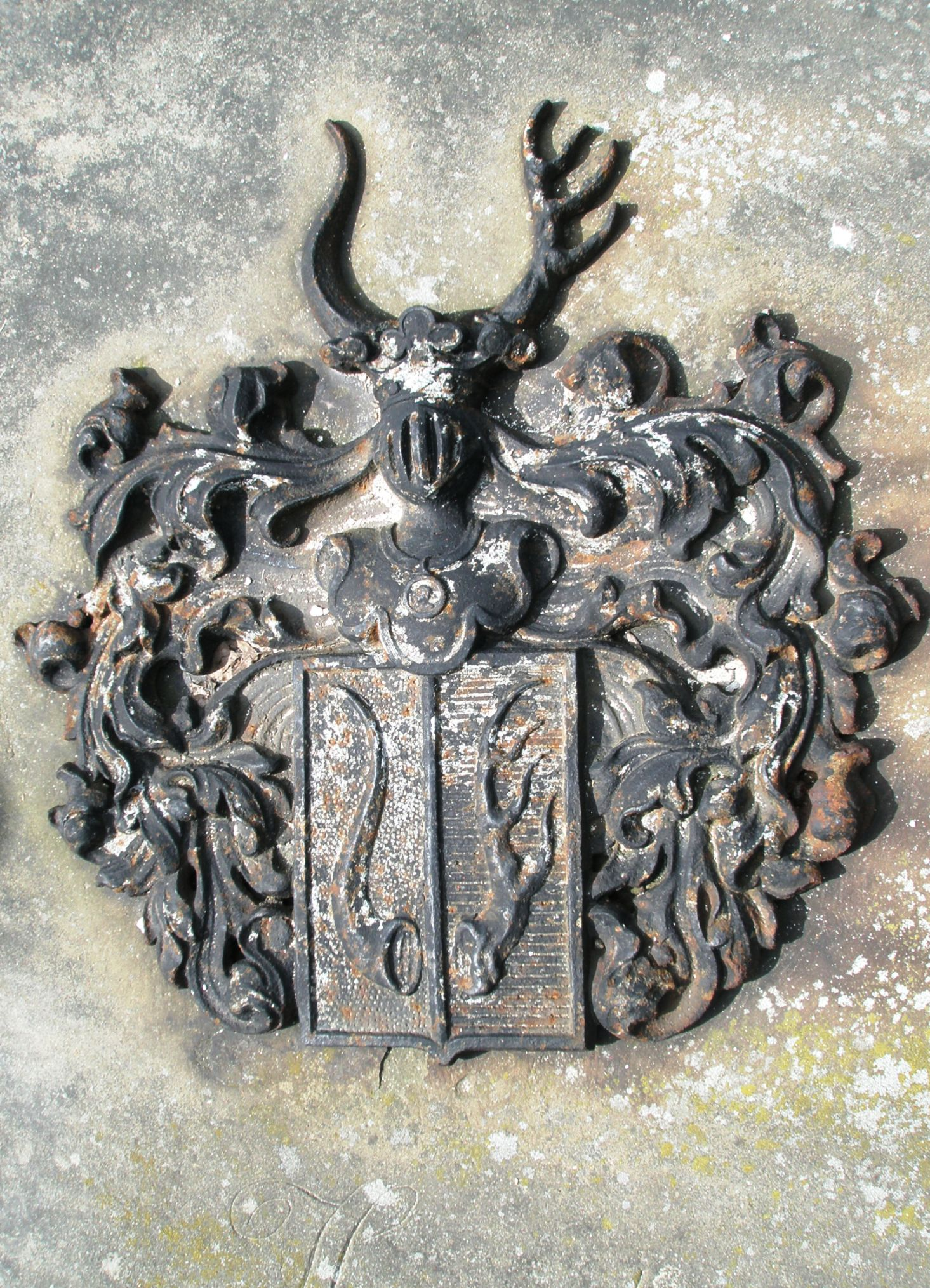 Relief of Rogala coat of arms in Komorní Lhotka, today Moravian-Silesian Region Czech republic, formerly Duchy of Teschen.